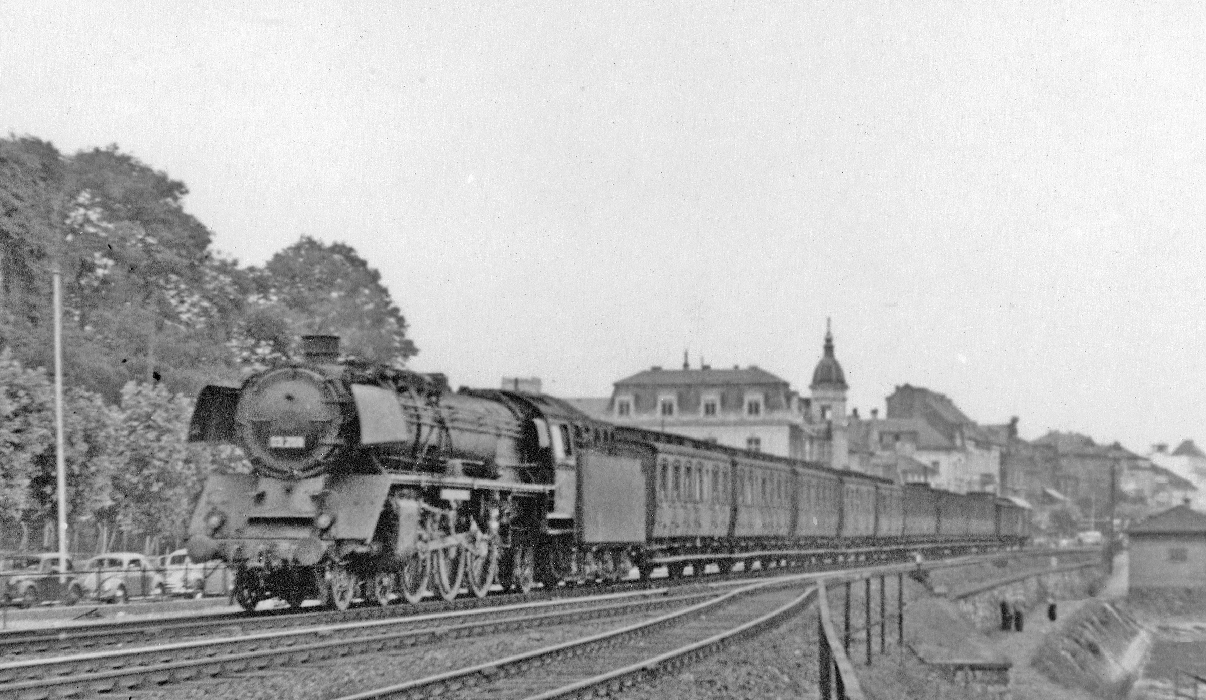 DB class 03 4-6-2 on northbound train at Rudesheim (Hesse/Rheinland) on the Rechte-Rheine main line (Mainz - Koln), 1954